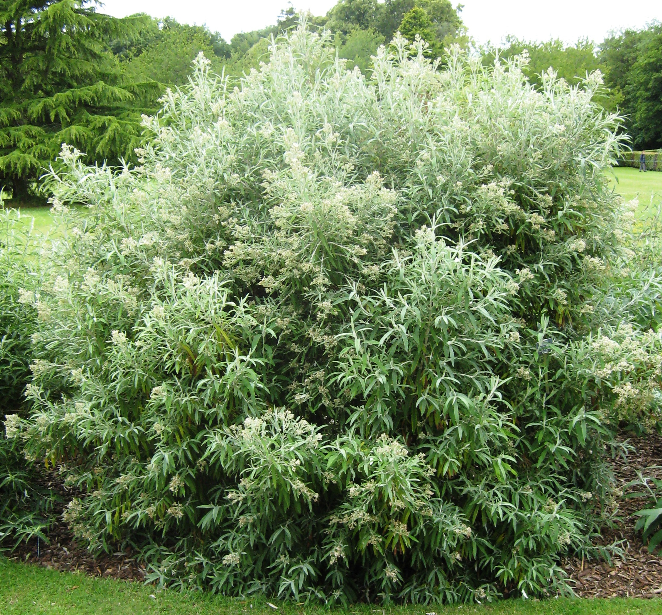 Photo of Buddleja loricata, Longstock Park Nursery, Hampshire